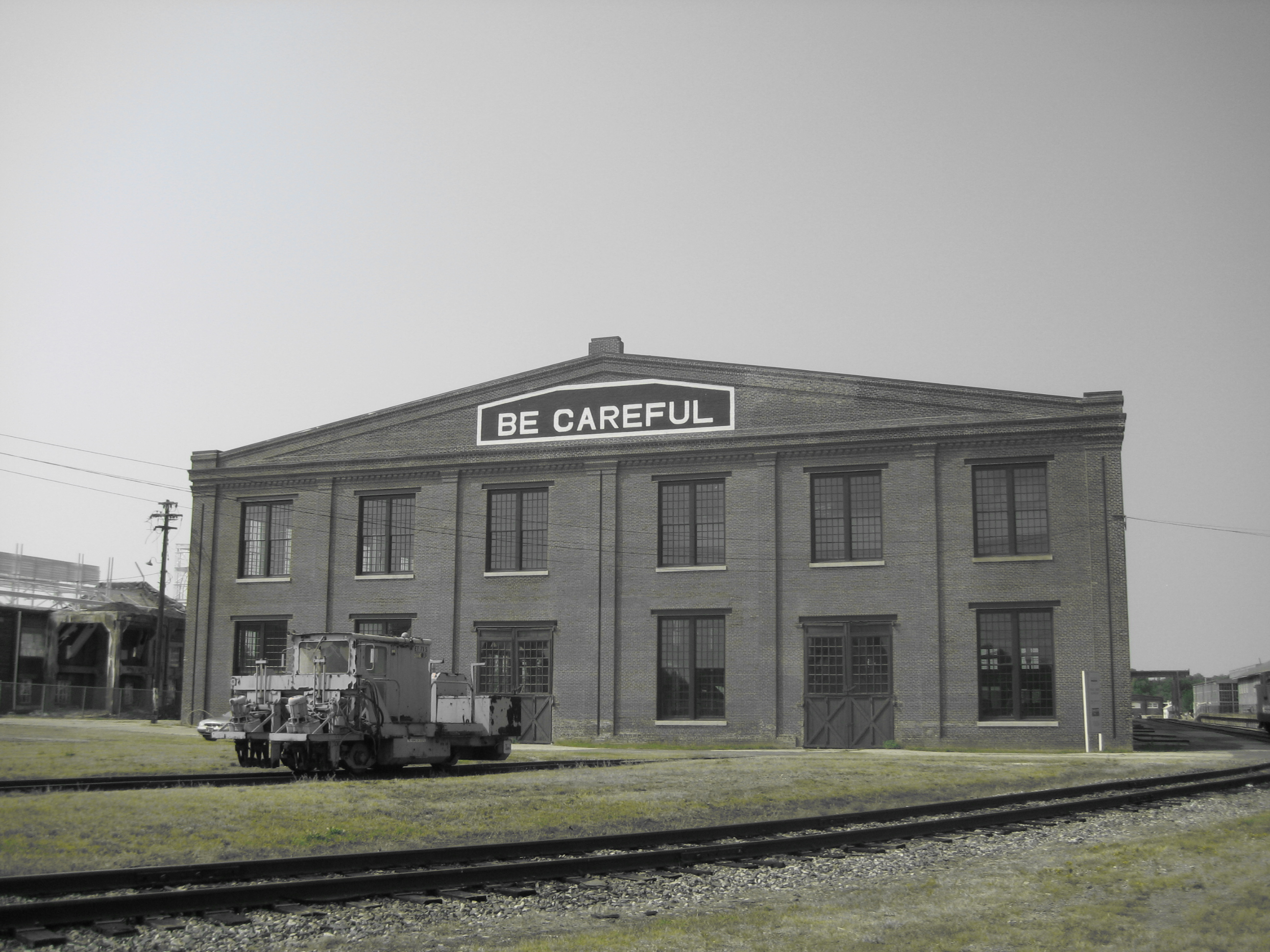 North Carolina Transportation Museum, Spencer, North Carolina. 09-03-07. The main repair shop of the former railcar repair shop of the Southern Railway. The old repair shop became antiquidated by the introduction of the diesel locomotive in the 1940s. Today it is undergoing a major historical renovation. The size of the building is deceptive; it is bigger than 2 football fields.